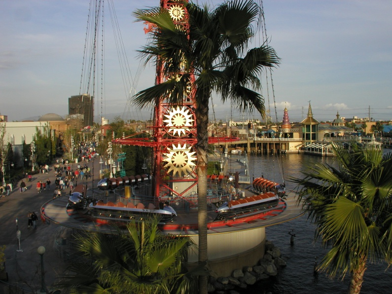 Golden Zephyr from Jellyfish. Taken from Image:Golden Zephyr from Jellyfish.jpg